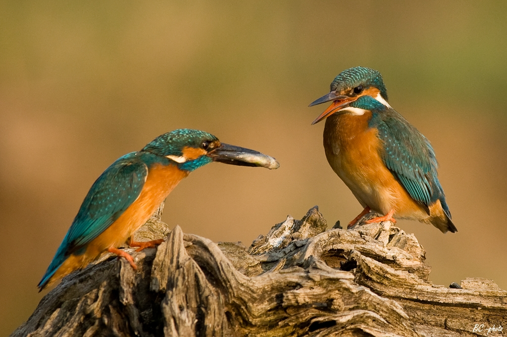 Alcedo atthis (courtship), Gajary, Slovakia